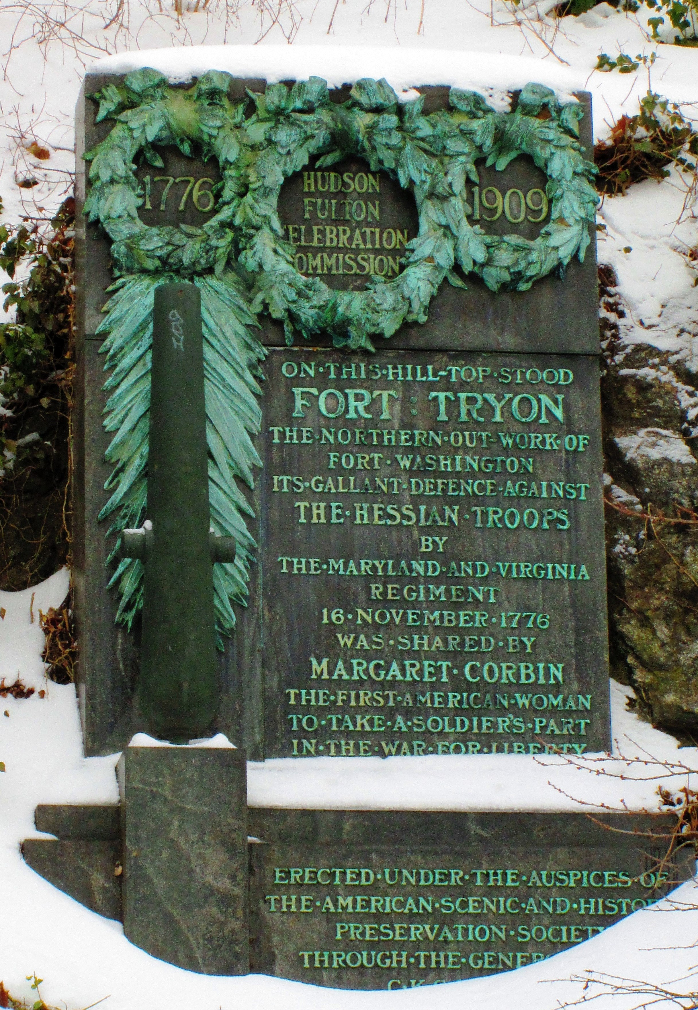 An old plaque dedicated to Margaret Corbin, the first woman to fight in the American Revolutionary War, in Fort Tryon Park in Upper Manhattan, New York City. A newer plaque is located in a more traveled place in the park.